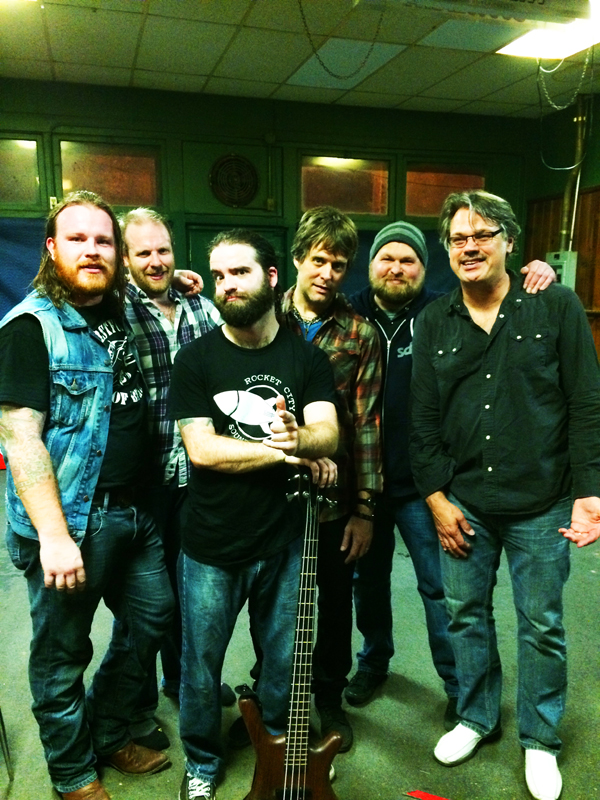 End-of-tour photo of Detroit, MI band Jeremy Porter & The Tucos and Lexington, KY band Those Crosstown Rivals taken at the Mag Bar in Louisville, KY after 11 shows in 11 days together in the western and deep-south states. LtoR: Bryan Minks, J Tyler Gregg, Cory Hanks, Jeremy Porter, Gabriel Doman, Patrick O'Harris.